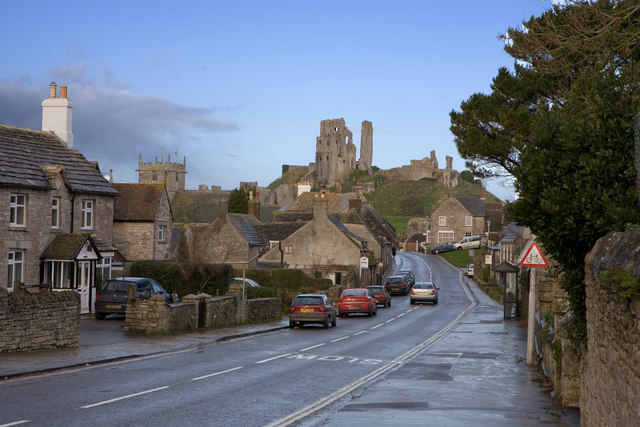 Corfe Castle between rain showers